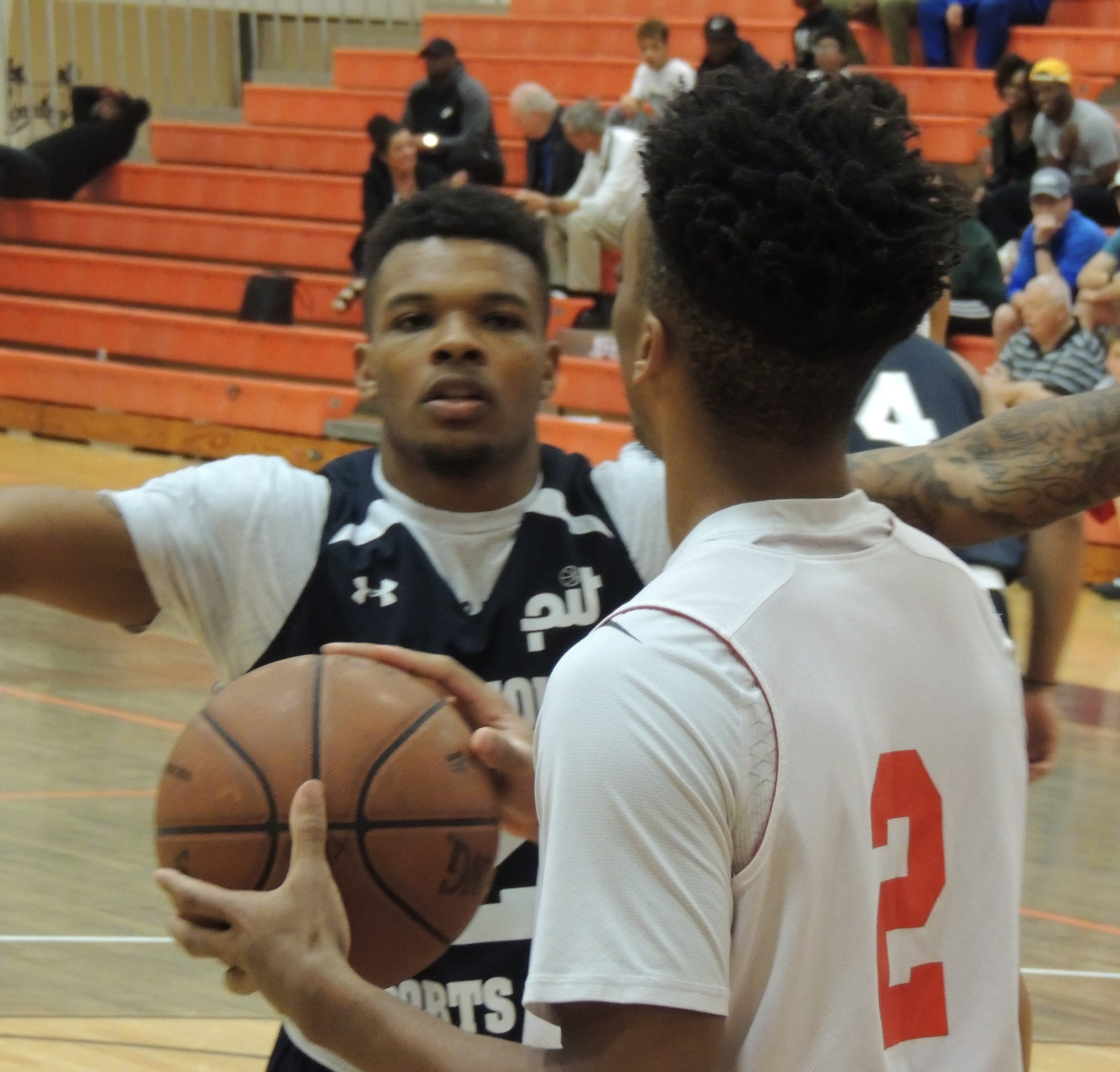 American basketball player Tookie Brown from Georgia Southern University at the 2019 Portsmouth Invitational Tournament